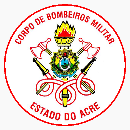 Coat of arms of Firemen - CBM AC - Brazil.